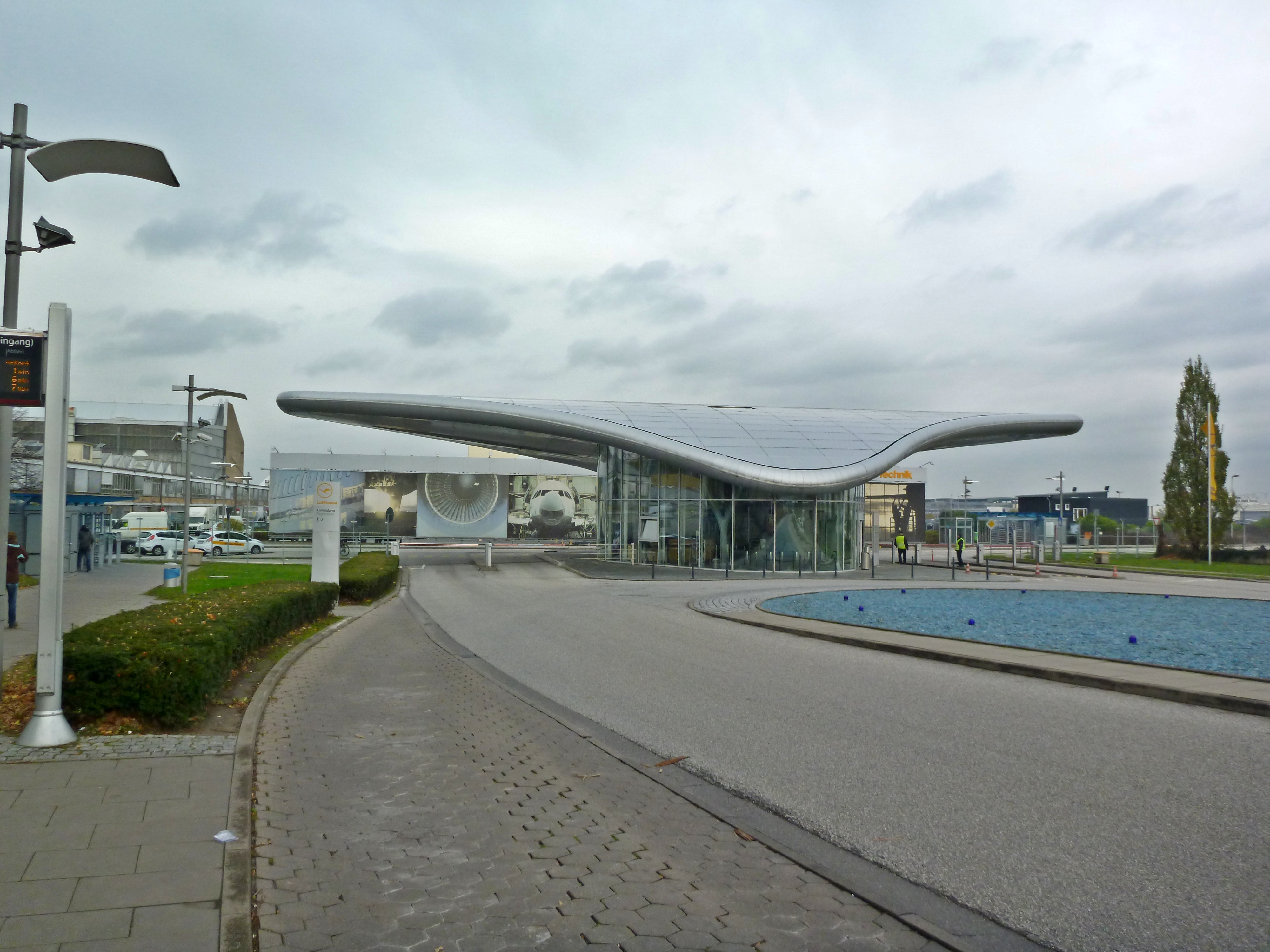 Main entrance to Lufthansa Technik Hamburg